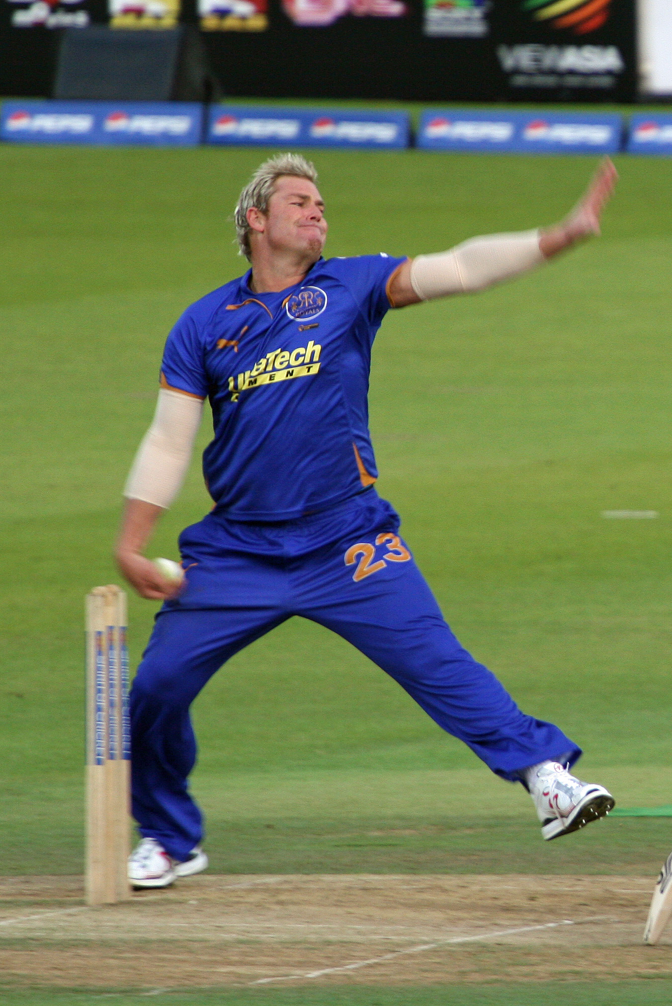 Shane Warne bowling for the Rajasthan Royals against Middlesex at Lords in 2009